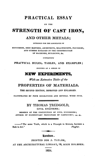 Title page of the Thomas Tredgold's cast iron book 1824 "A Practical Essay on the Strength of Cast Iron and other Metals".